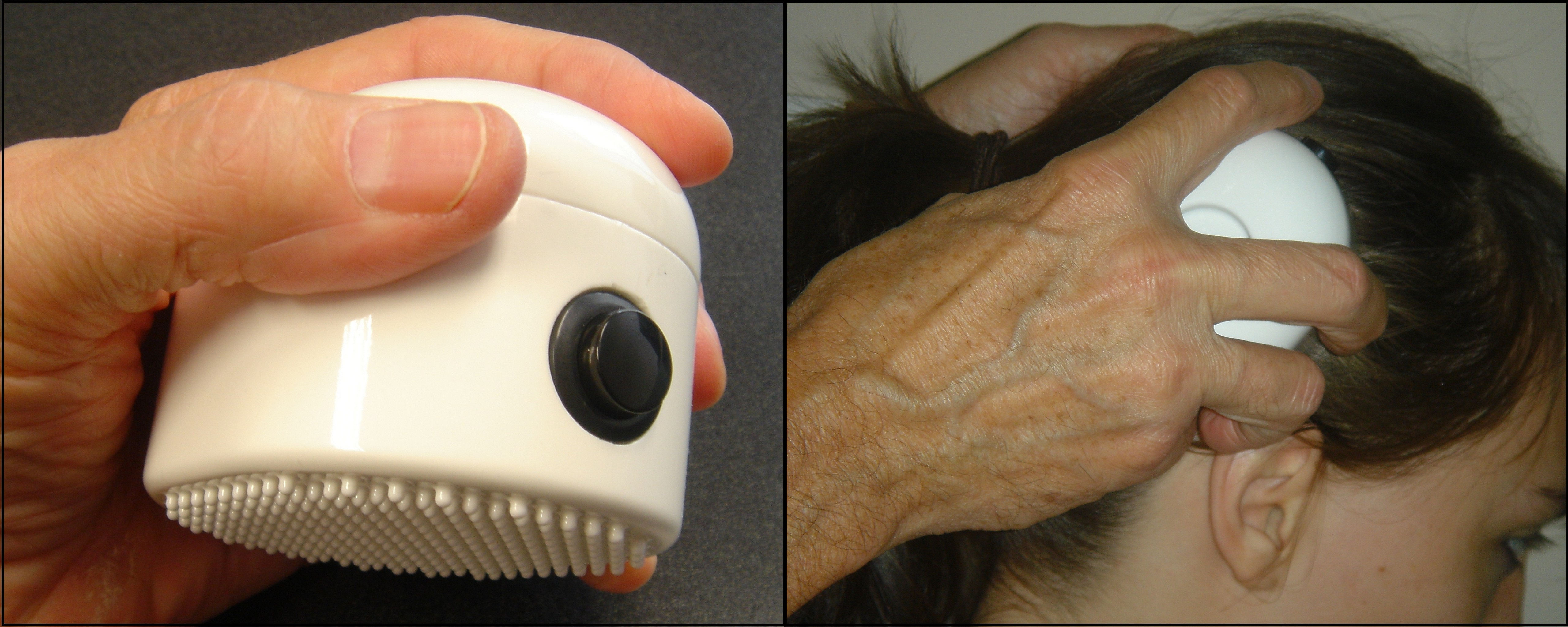 SCIII Micro-Pumper & SCIII 14 MP